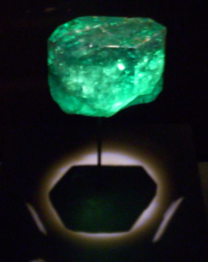 The Gachala Emerald one of the largest Emeralds in the world at 858 carats. This stone was found in 1967 at Vega de San Juan mine in Colombia. On display at the National Museum of Natural History.